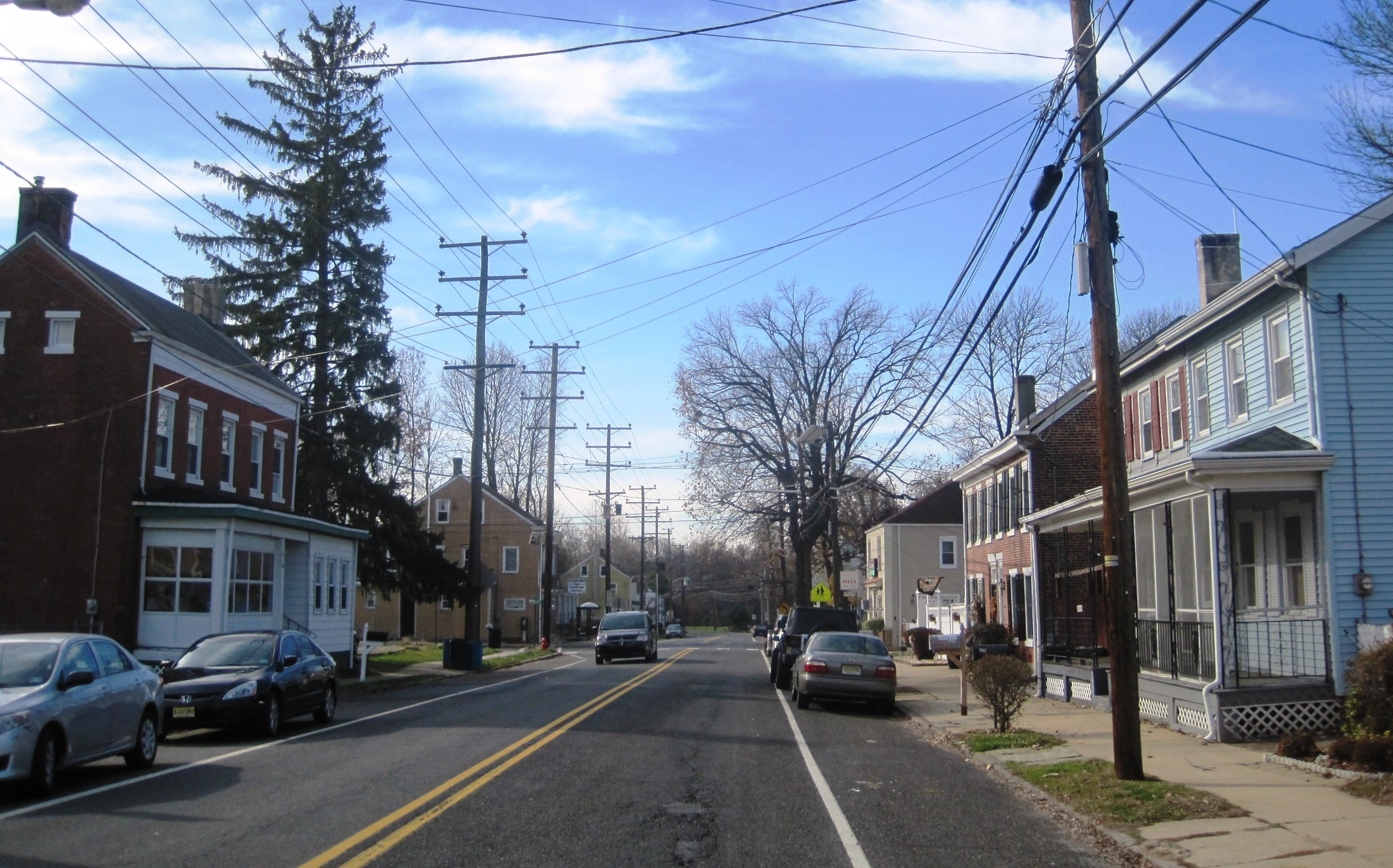 Photo of Fieldsboro, New Jersey. Photo taken looking south along Fourth Street (County Route 662) approaching Washington Street.